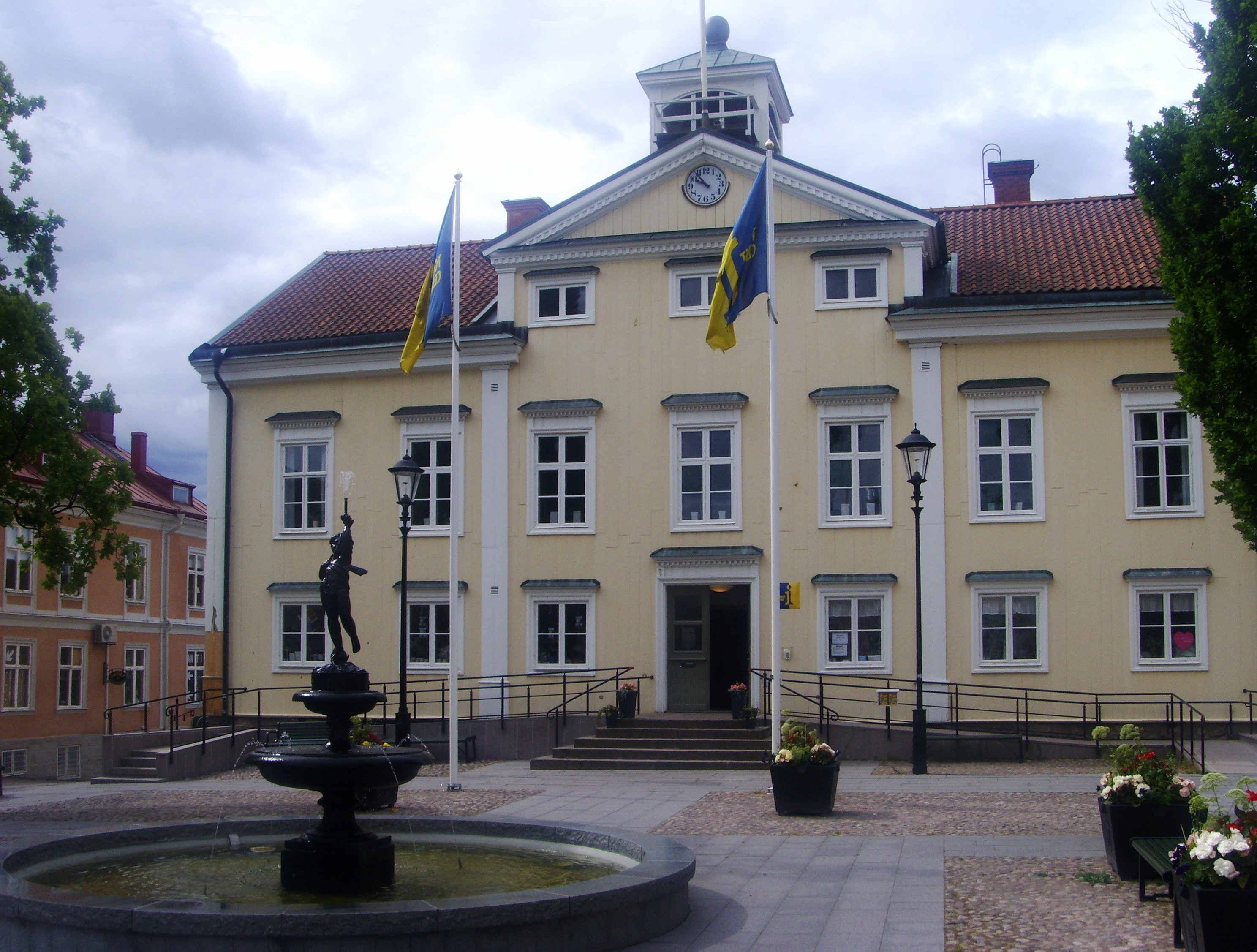 Vimmerby